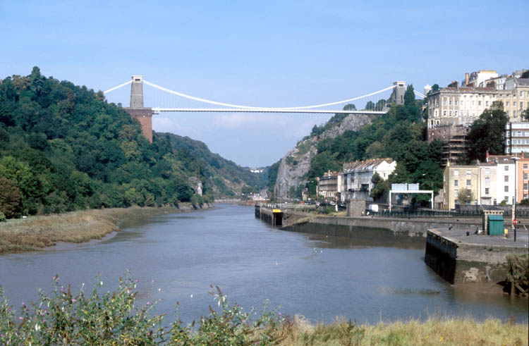 The Clifton Suspension Bridge, spanning the Avon Gorge in Bristol. The Georgian terraces of Clifton can be seen on the right, with the district of Hotwells below them. On the left is Leigh Woods. Taken from a slip road off Brunel Way.